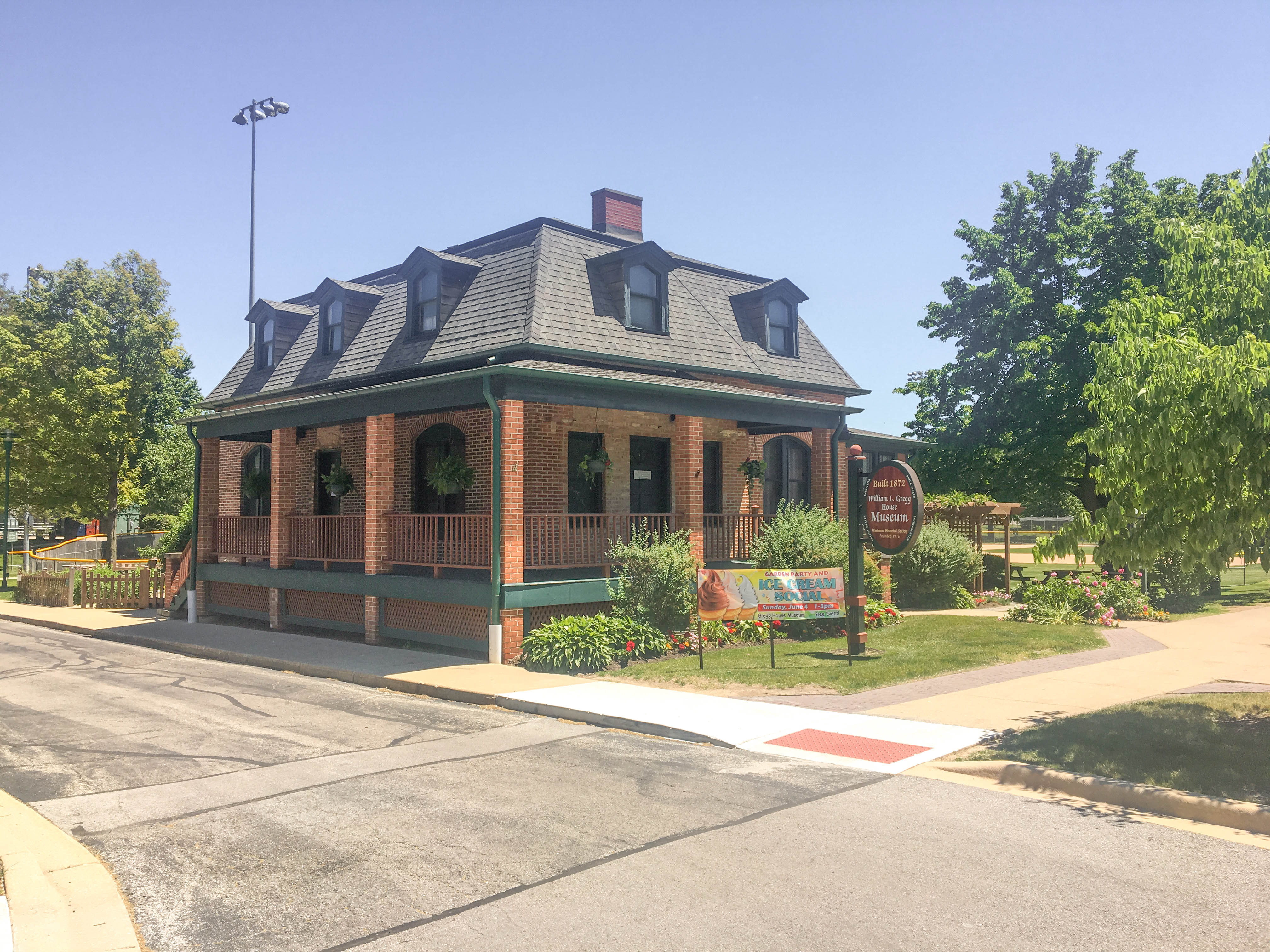 20170607 01 Gregg House, Westmont, Illinois